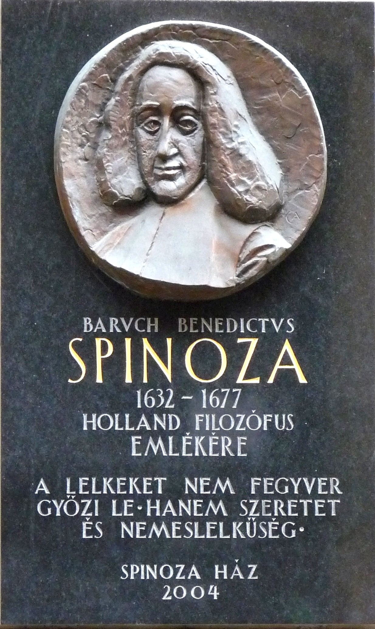 Commemorative plaque to Mr. Baruch Spinoza (1632-1677) Dutch philosopher of Spanish Jewish origin, affixed on the wall of the Café-théâtre bearing his name. Author of the bronz relief: Antal Czinder. It was unveiled on October 8, 2004. Quote Spinoza Ethica Part 4 Proposition 11: "Minds are conquered not by arms, but by love and magnanimity." (Budapest, District VII, Dob Street Nr 15).